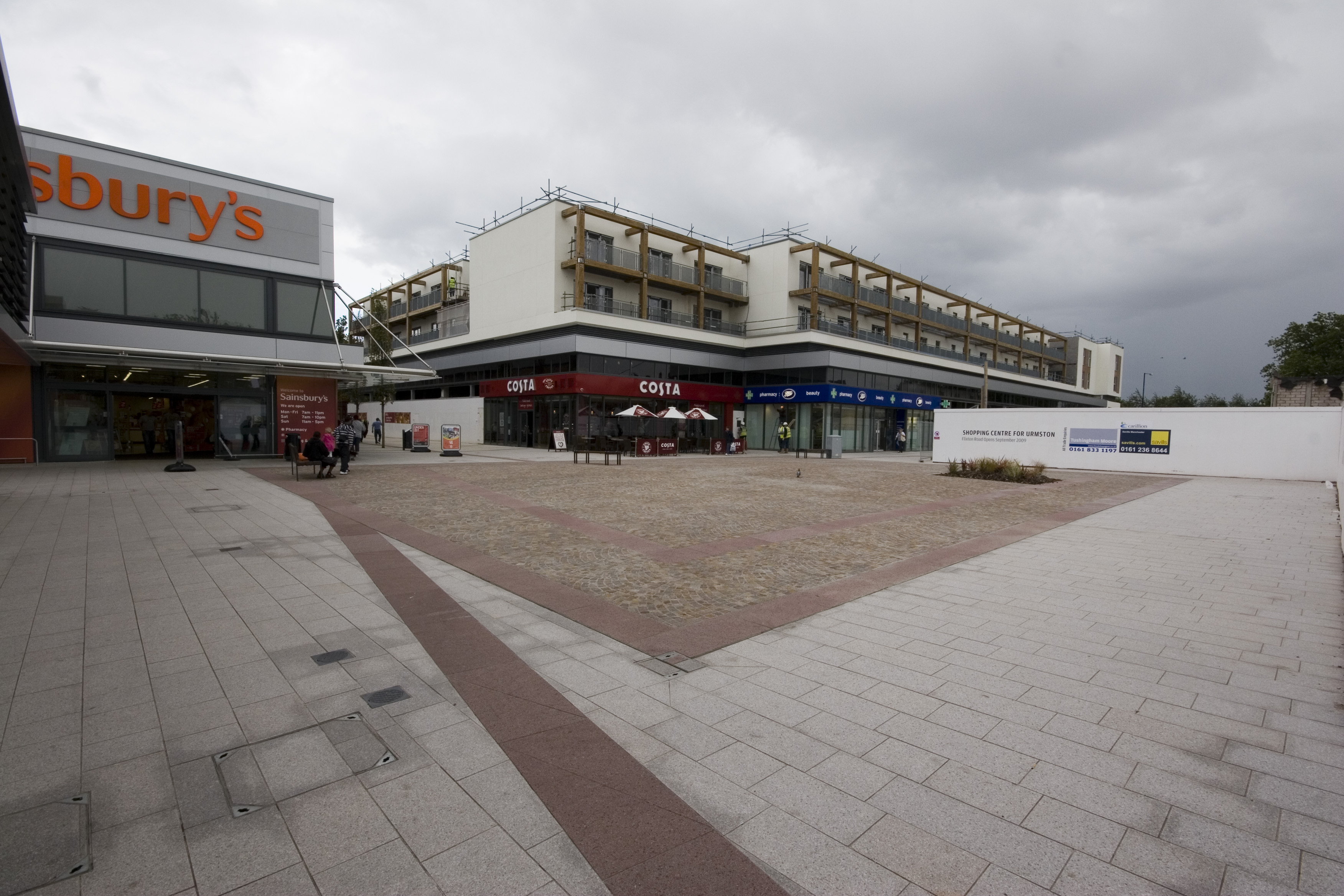 Urmston Precinct, under construction in September 2009. The Sainsburys supermarket has been open several weeks at this point.